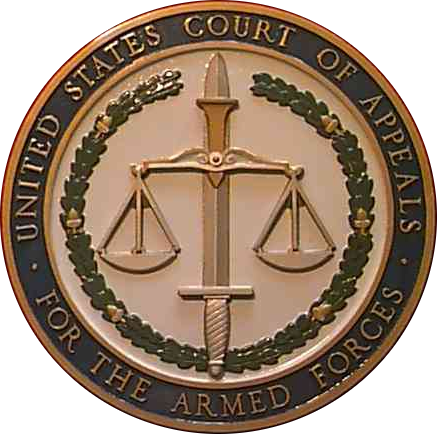 Seal of the United States Court of Appeals for the Armed Forces